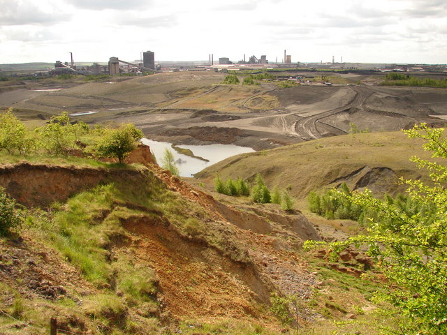 Planet Scunthorpe The remains of the opencast ironstone workings dominate the foreground but the steelworks are still going strong in the distance. There are several warning signs along the road as the ground is liable to subside. There are also 'No Swimming' signs, which is probably that last thing anyone in their right mind would want to do down there!